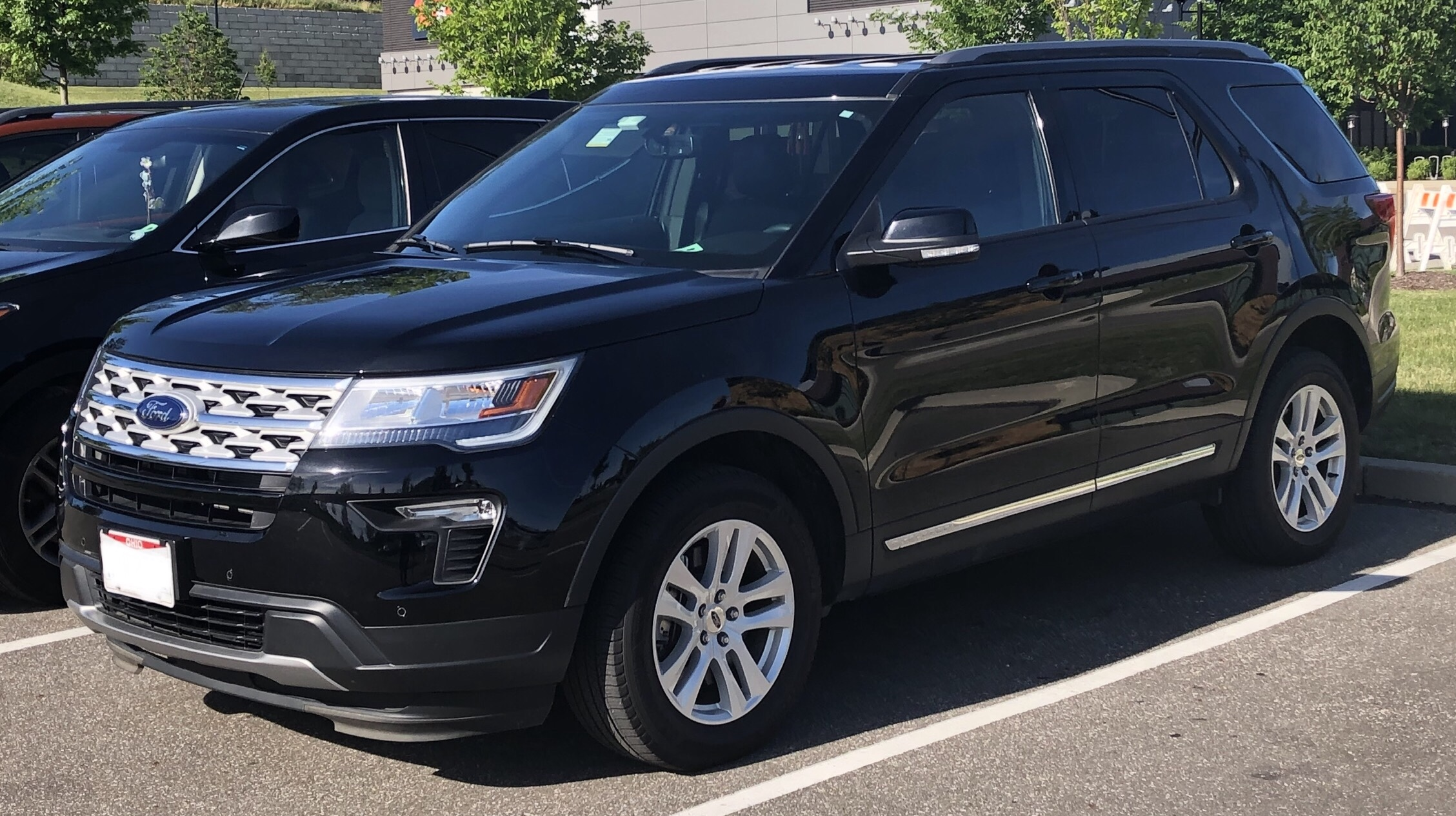 Fifth-generation Ford Explorer in black, second facelift